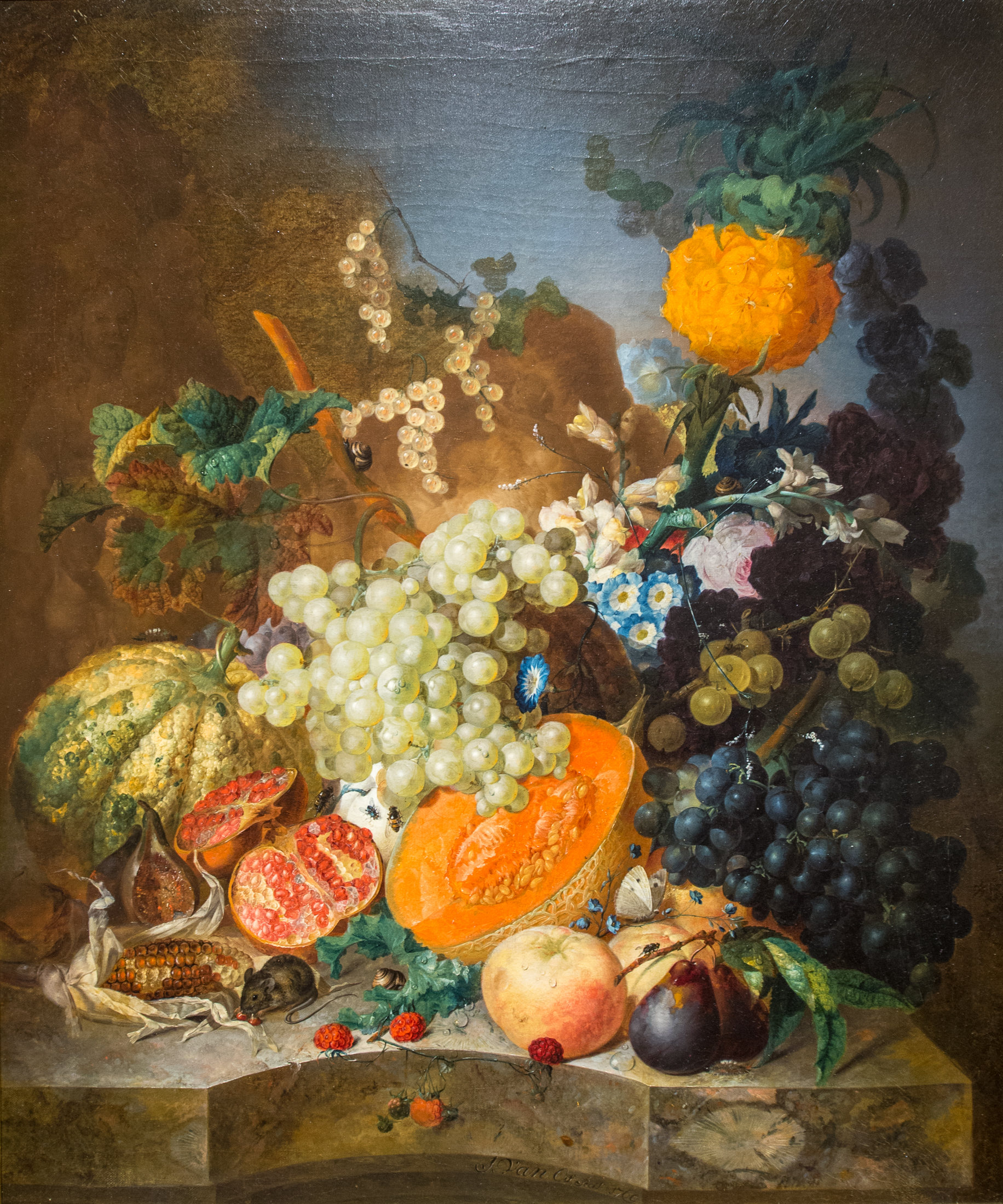 Photo of Jan Van Os' painting Still Life with Fruit